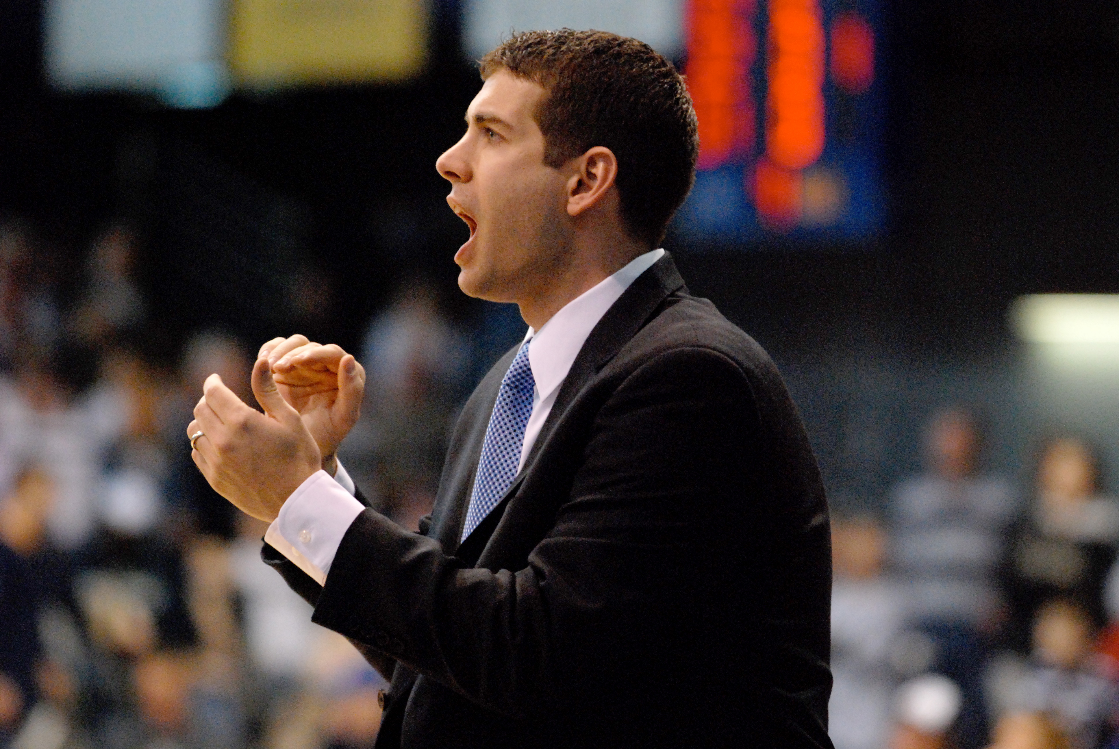 Taken at Hinkle Fieldhouse on the Butler University campus during Butler vs. Detroit game, 3/1/2008.